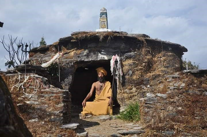 A sage meditating in Shrwankumar site